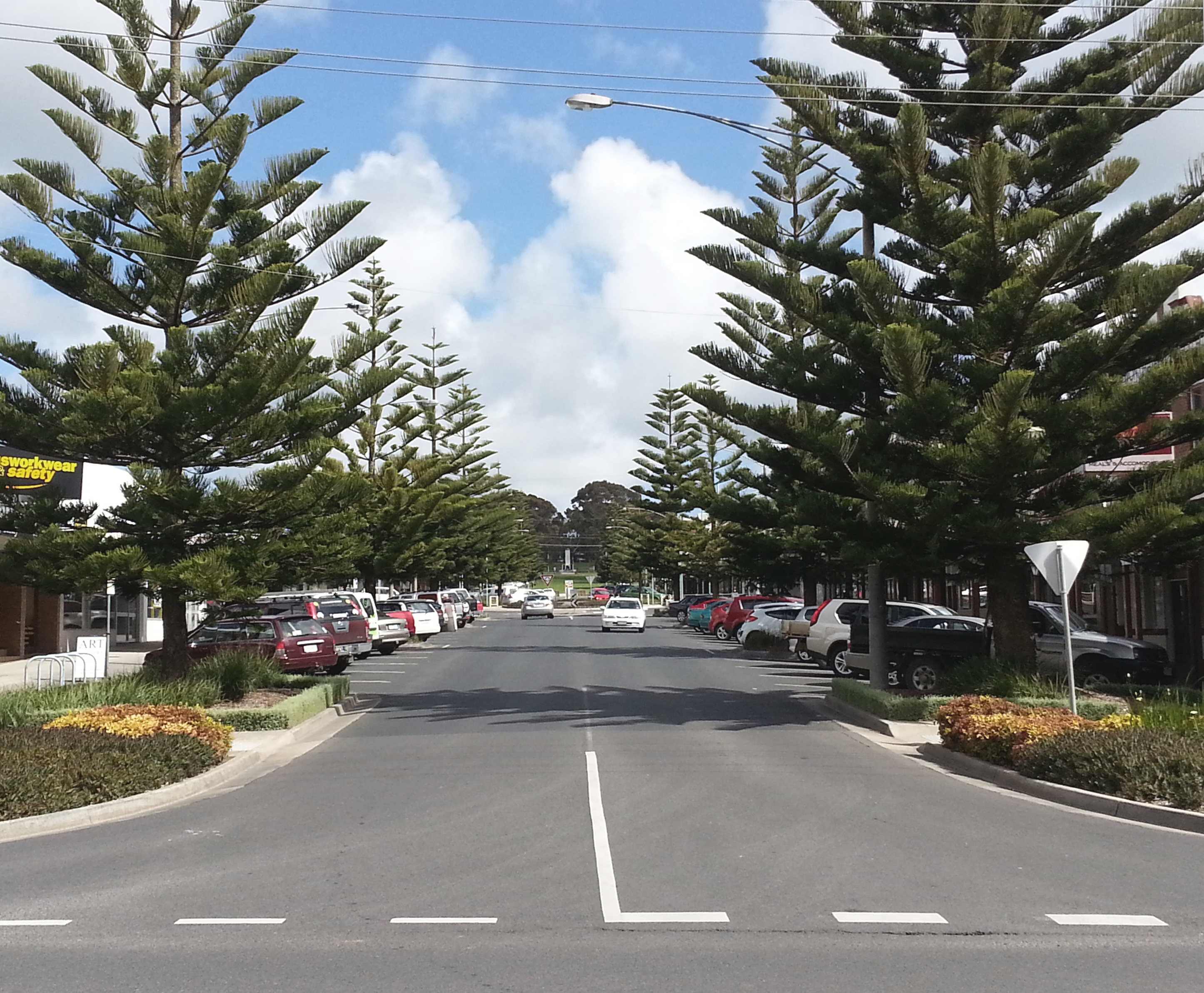 Wonthaggi Main Street, Wonthaggi, Victoria, Australia